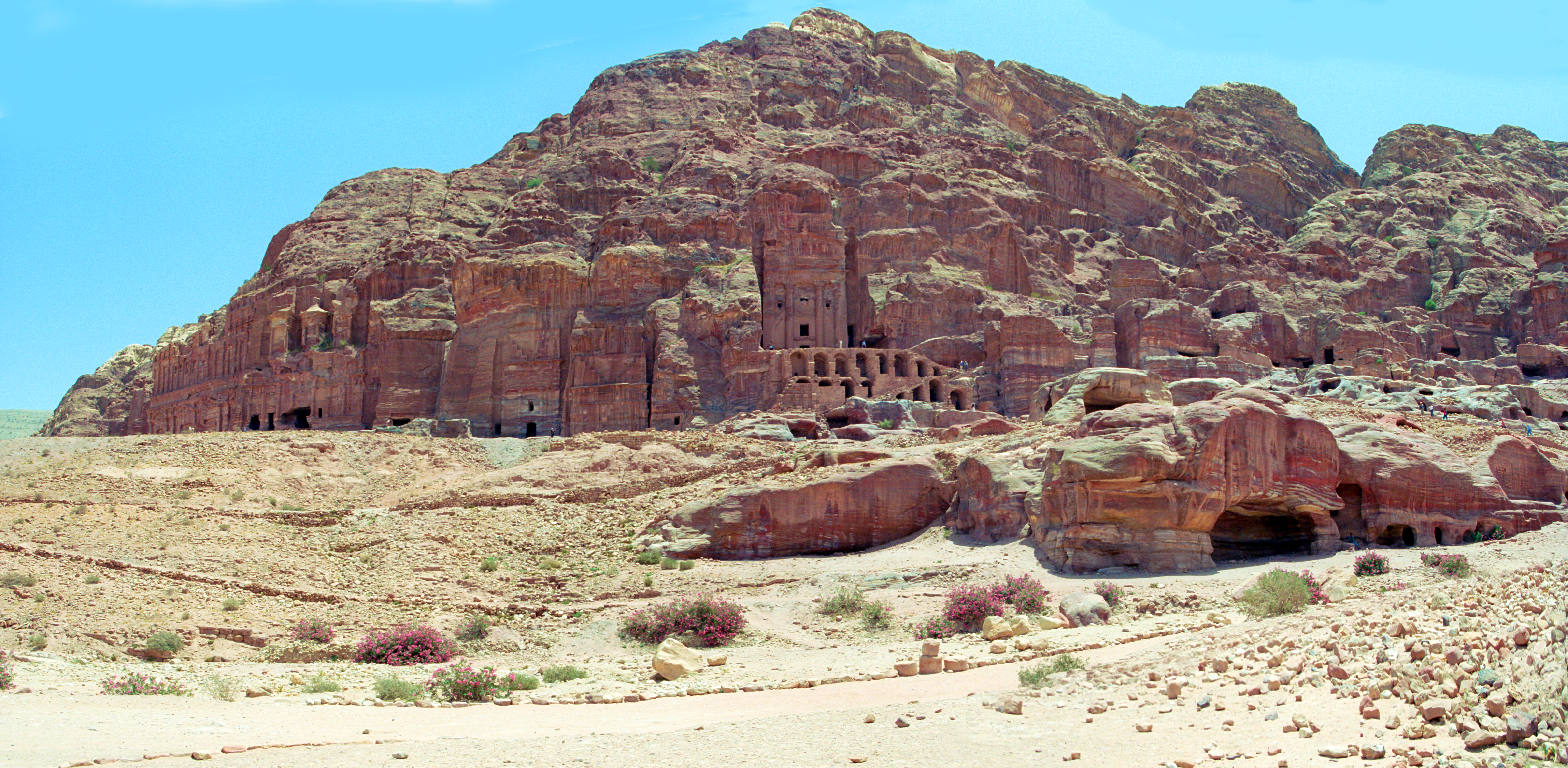 The Royal tombs of Petra, Jordan